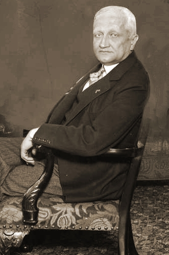 Konstanty Skirmunt, Polish politician and diplomat, Minister of Foreign Affairs of Poland 1924, Ambassador to Saint James Court (Britain) 1925-1933